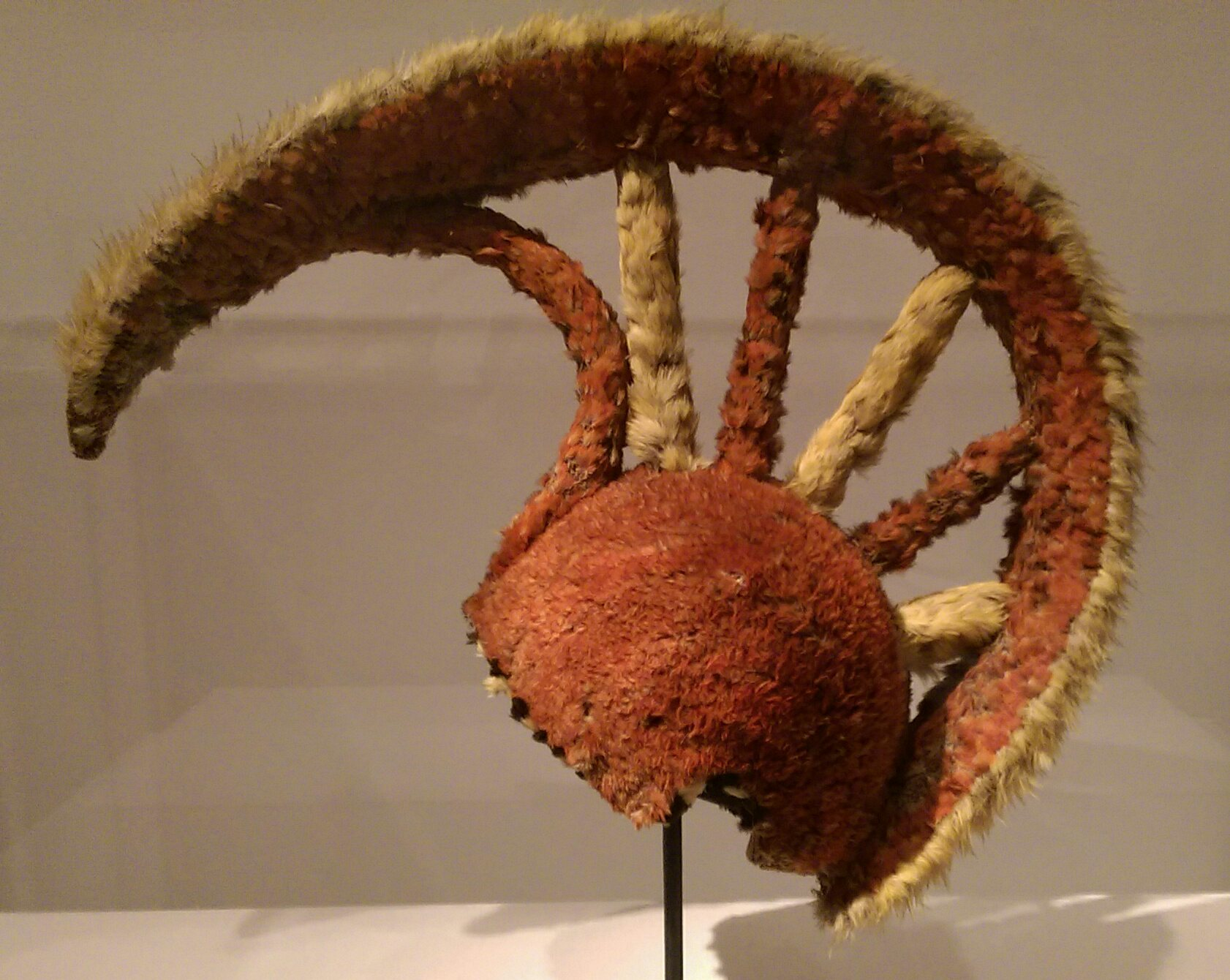 A Hawaiian mahiole collected by Robert Gray in 1789, on display at the de Young Museum in San Francisco. Photo by Jim Heaphy.